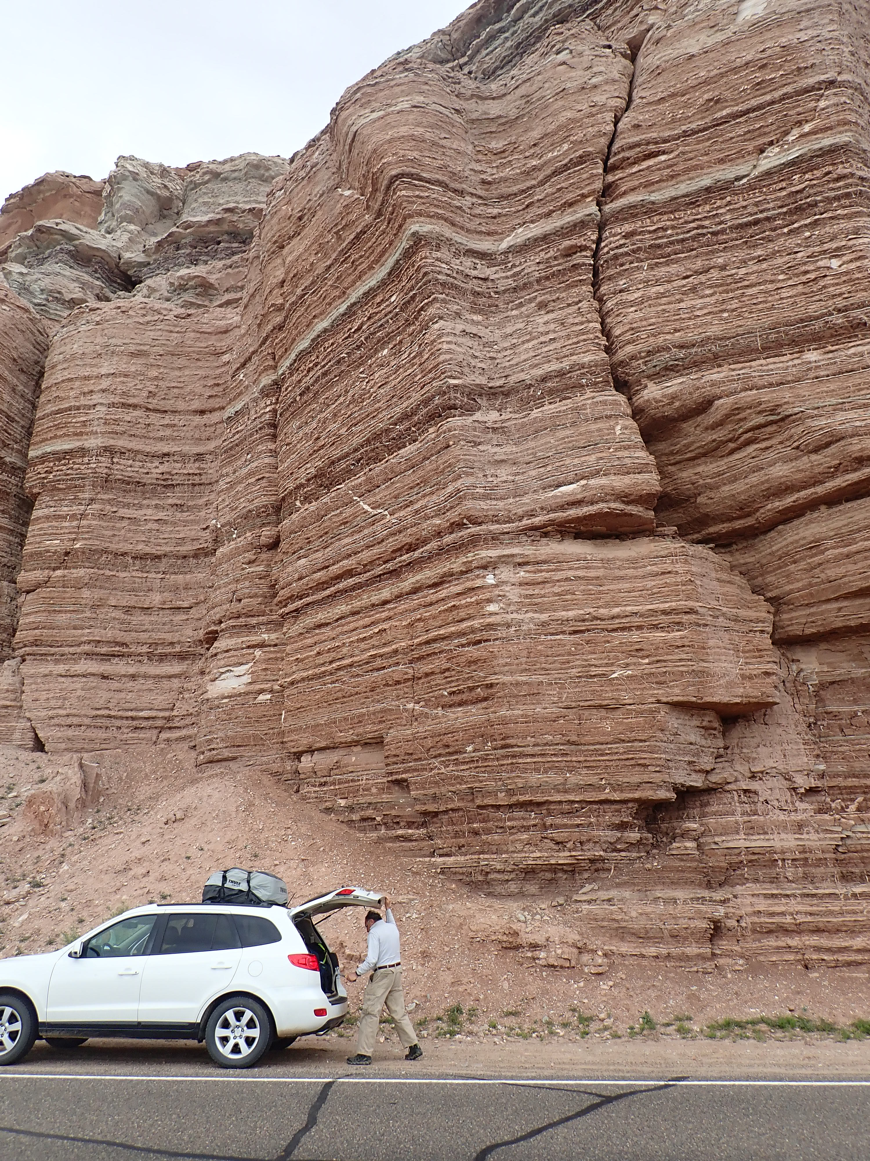 Thin beds of gypsiferous mudstone of the Summerville Formation in a road cut west of Hanksville, Utah, United States